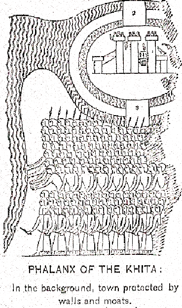 Illustration in a book published in 1890, from a chapter on ancient Egypt.